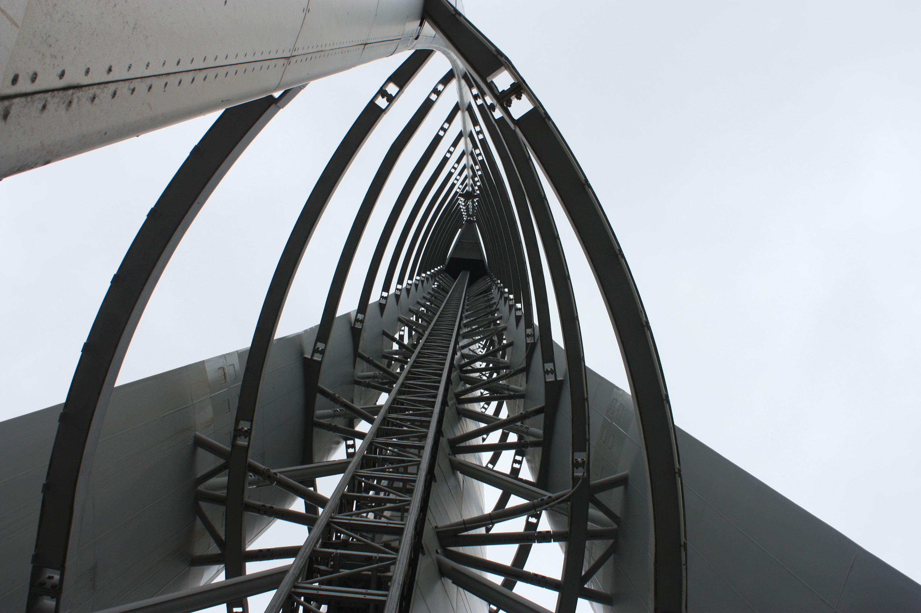 View up the centre of the Glasgow Tower from base of lift